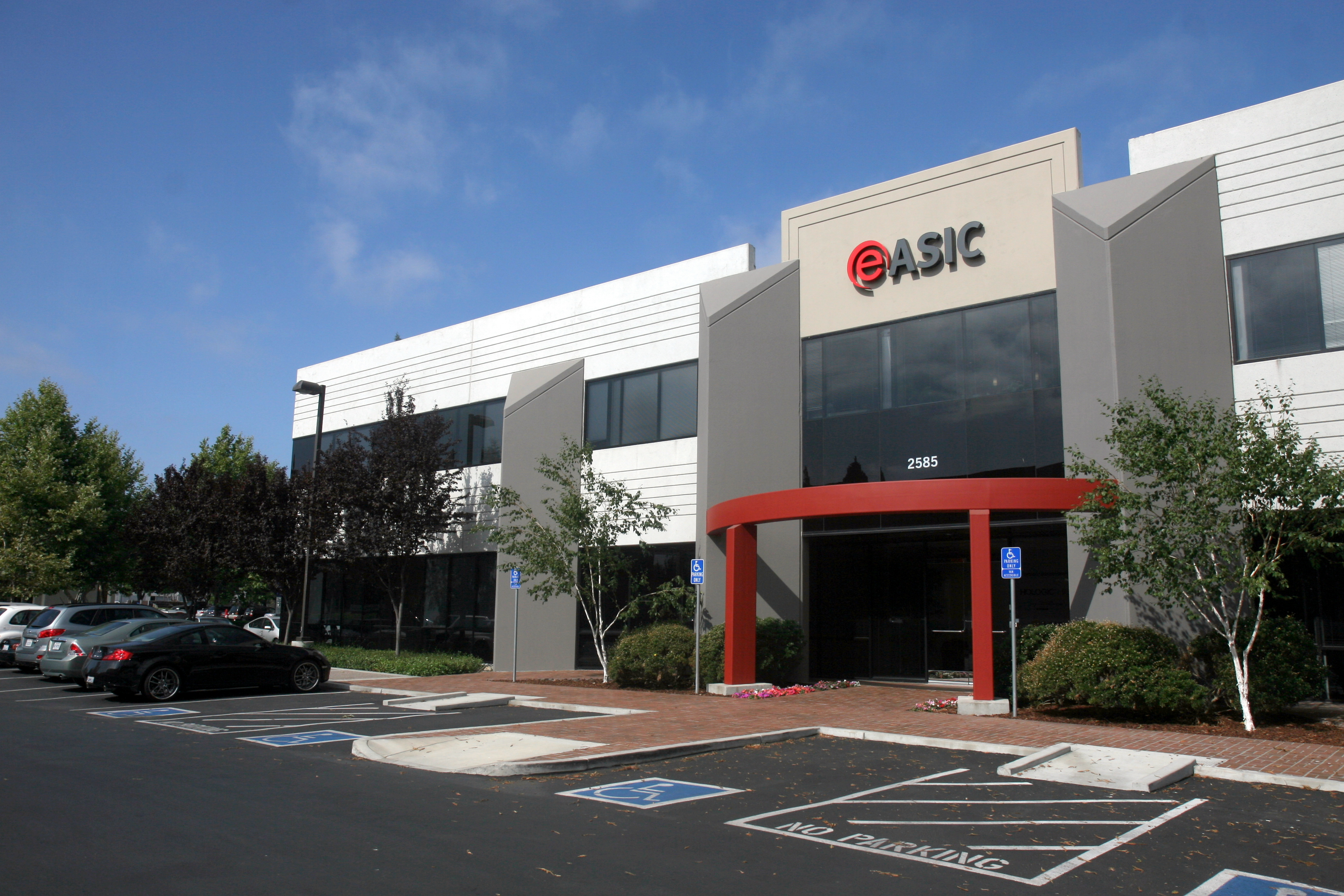 This is a picture of eASIC headquarters in Santa Clara, CA, USA